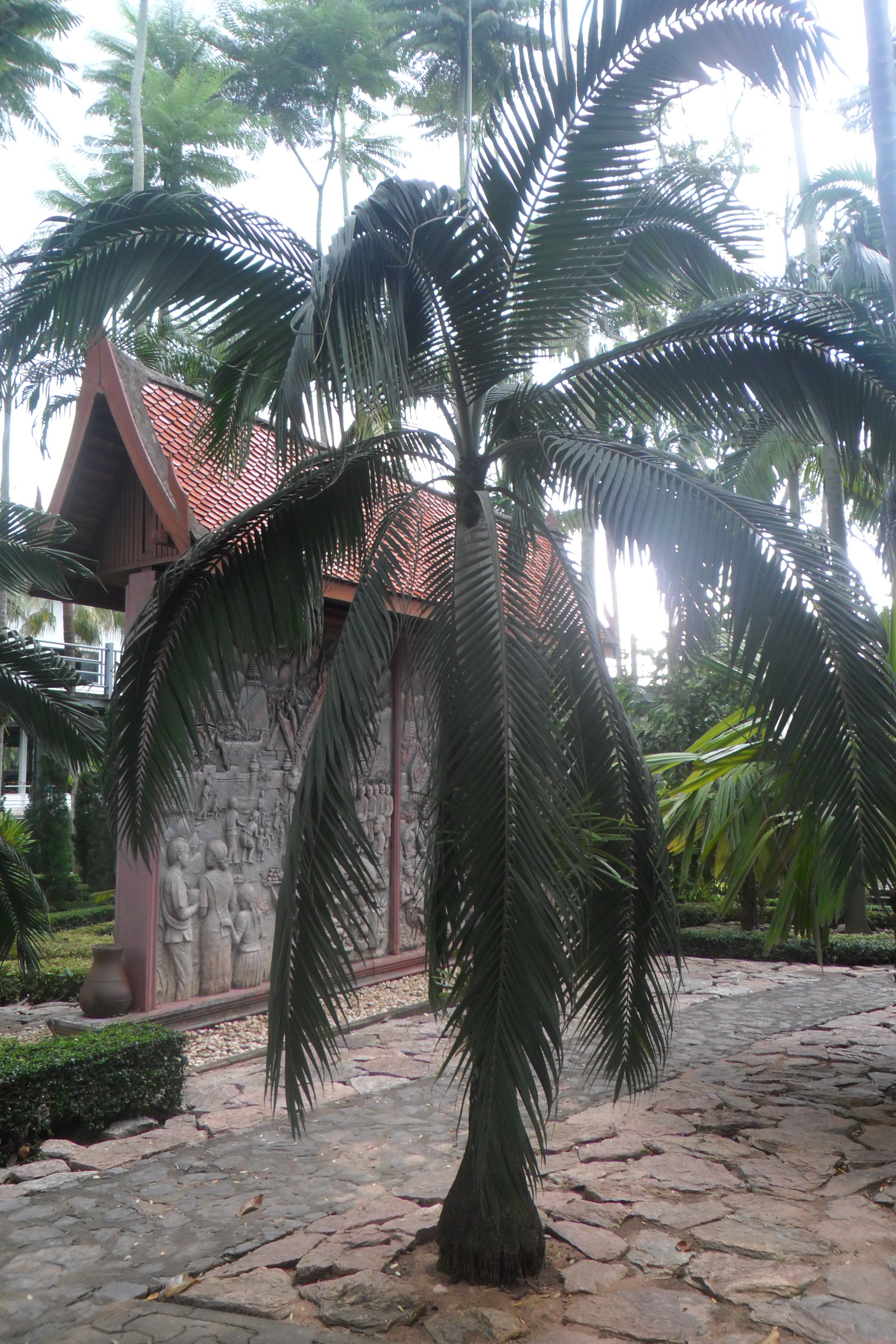 Dictyosperma album var. conjugatum. Nong Nooch Botanical Garden. Thailand.